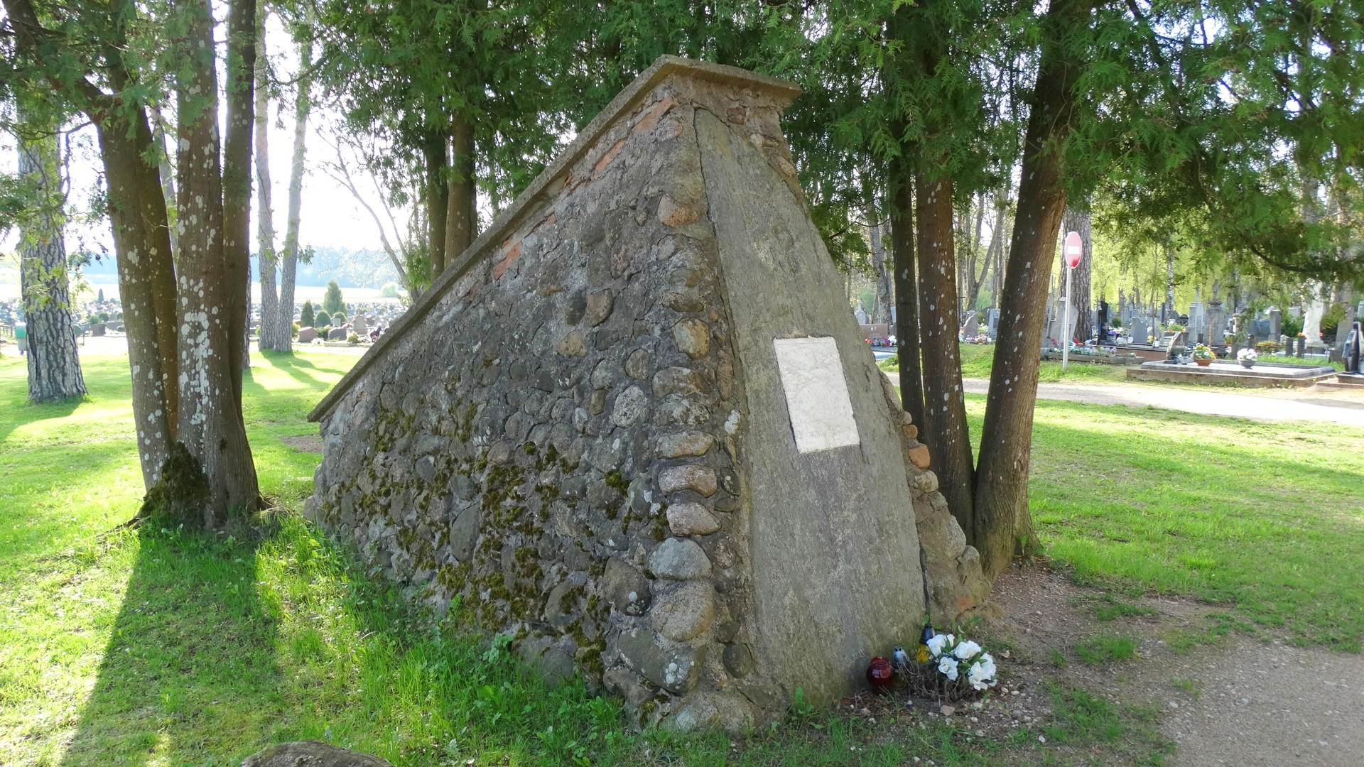 Memorial stone to officer Michał Wagner (killed in 1812), chuchyard, Šalčininkai, Lithuania